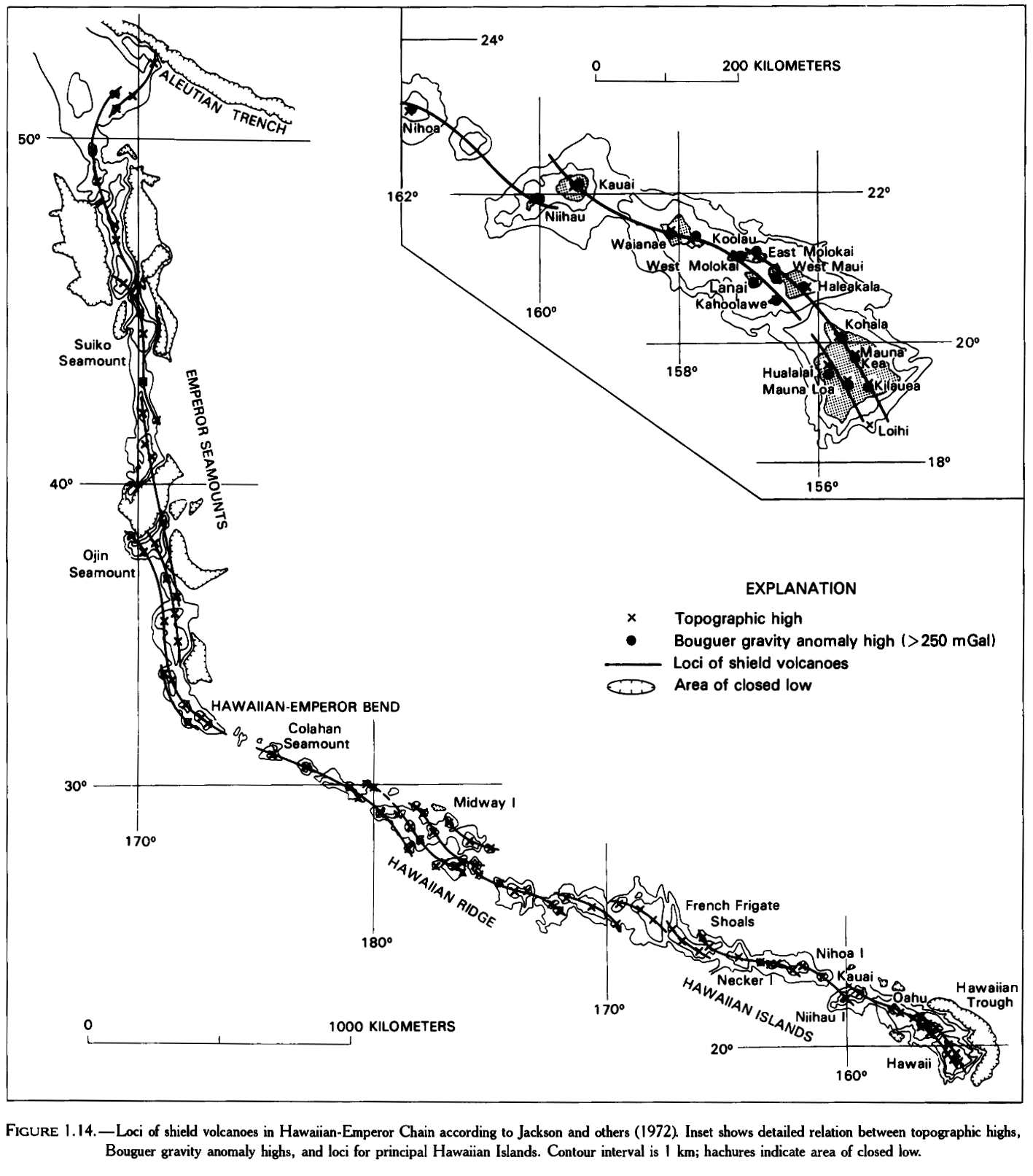 Map showing the geologic echelon loci "trends" of the "Kea" and "Loa" Hawaiian volcanoes.